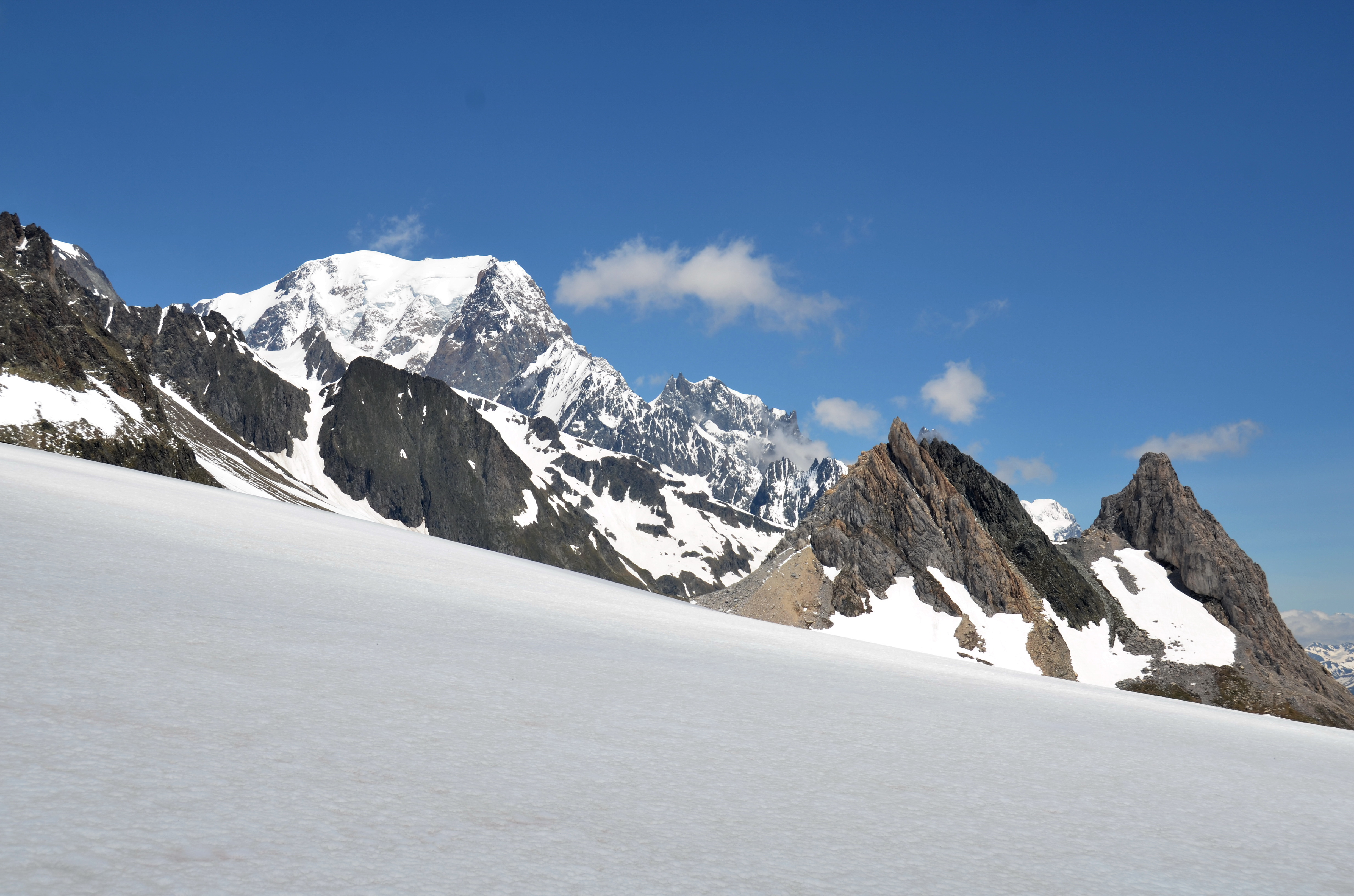 Reaching Col de la Seigne 2516 m at 26 june 2013, there was a fantastic overview of the Mont Blanc Massif 4810 m